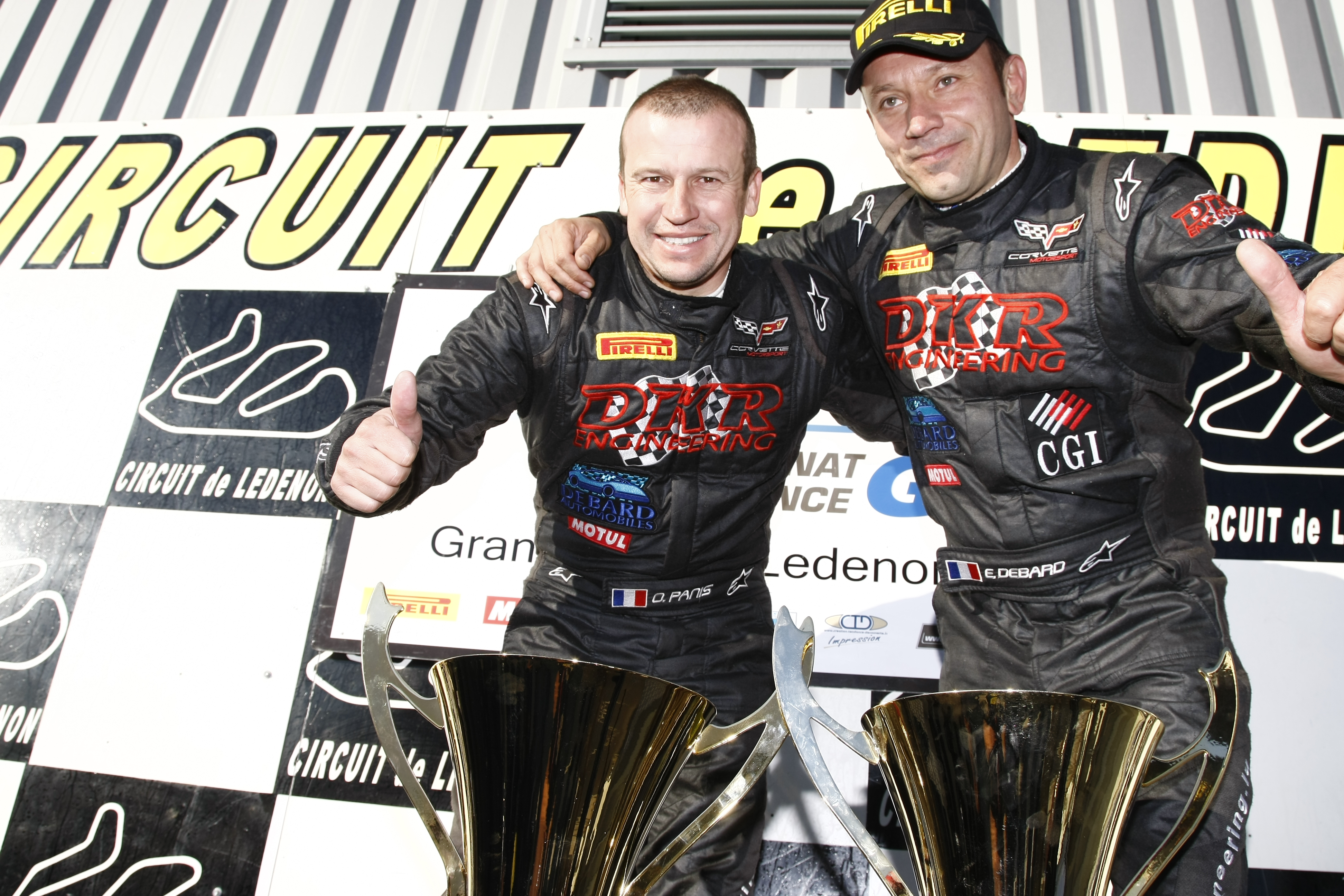 PODIUM